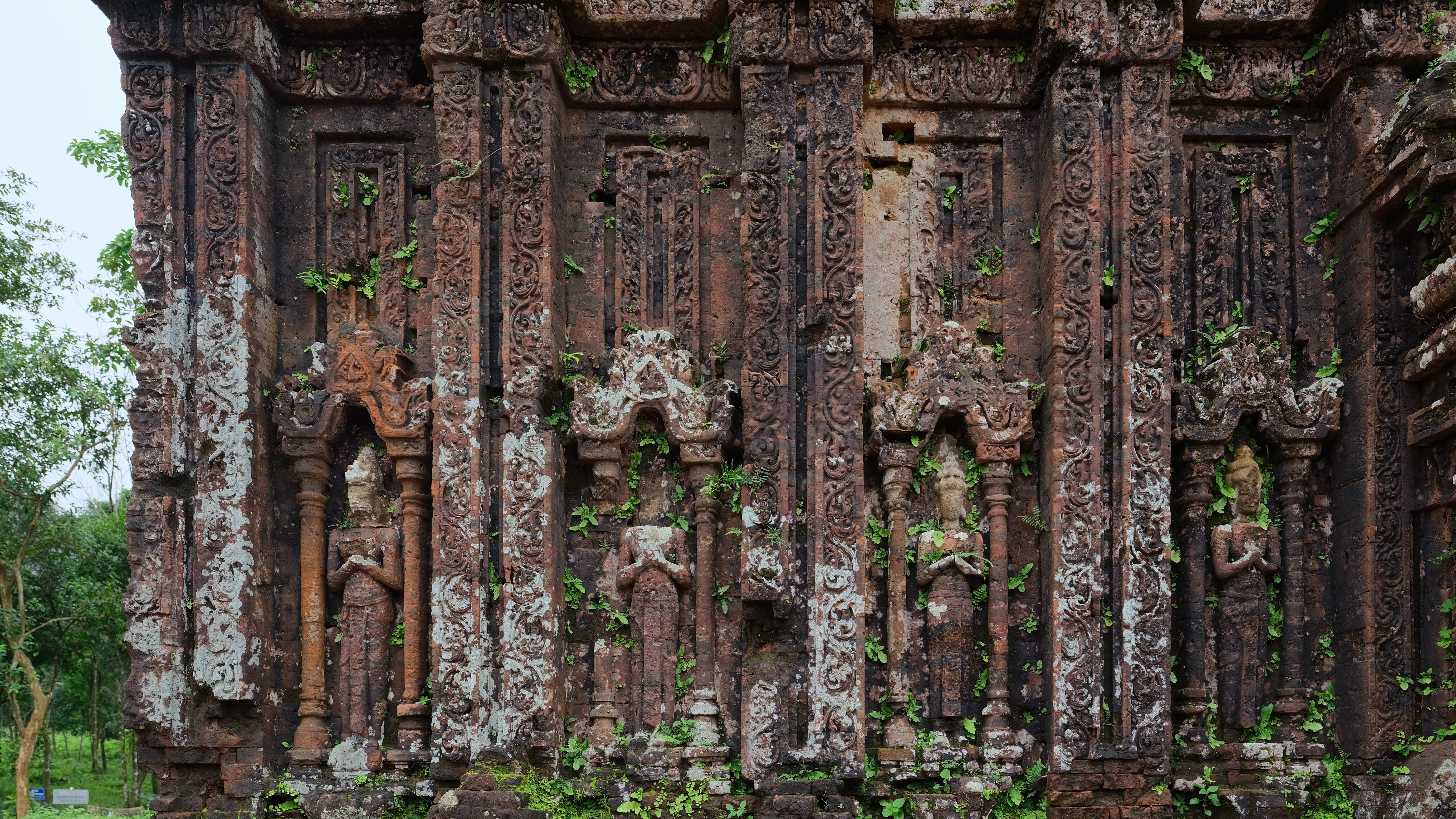 My Son sanctuary